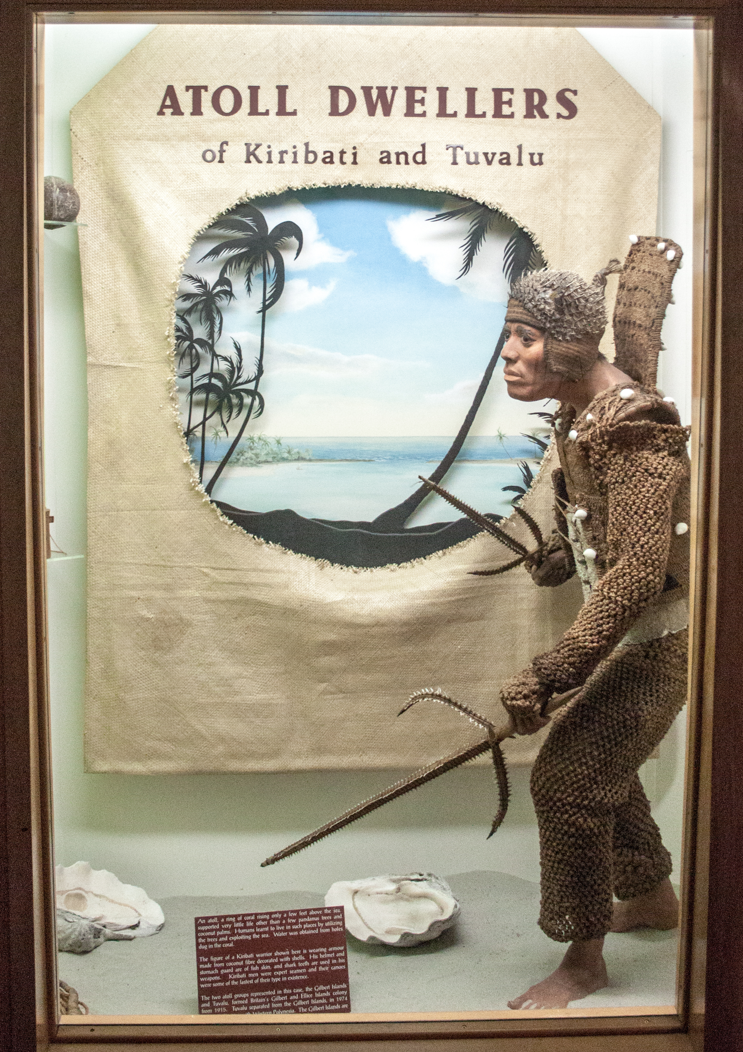 Display of objects from Kiribati and Tuvalu